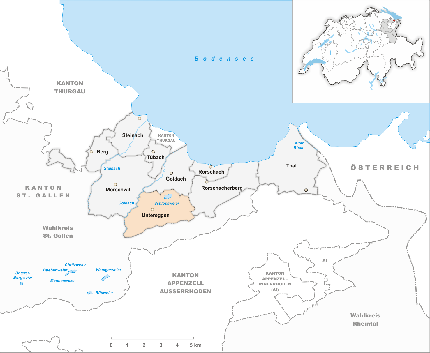 Municipality Untereggen